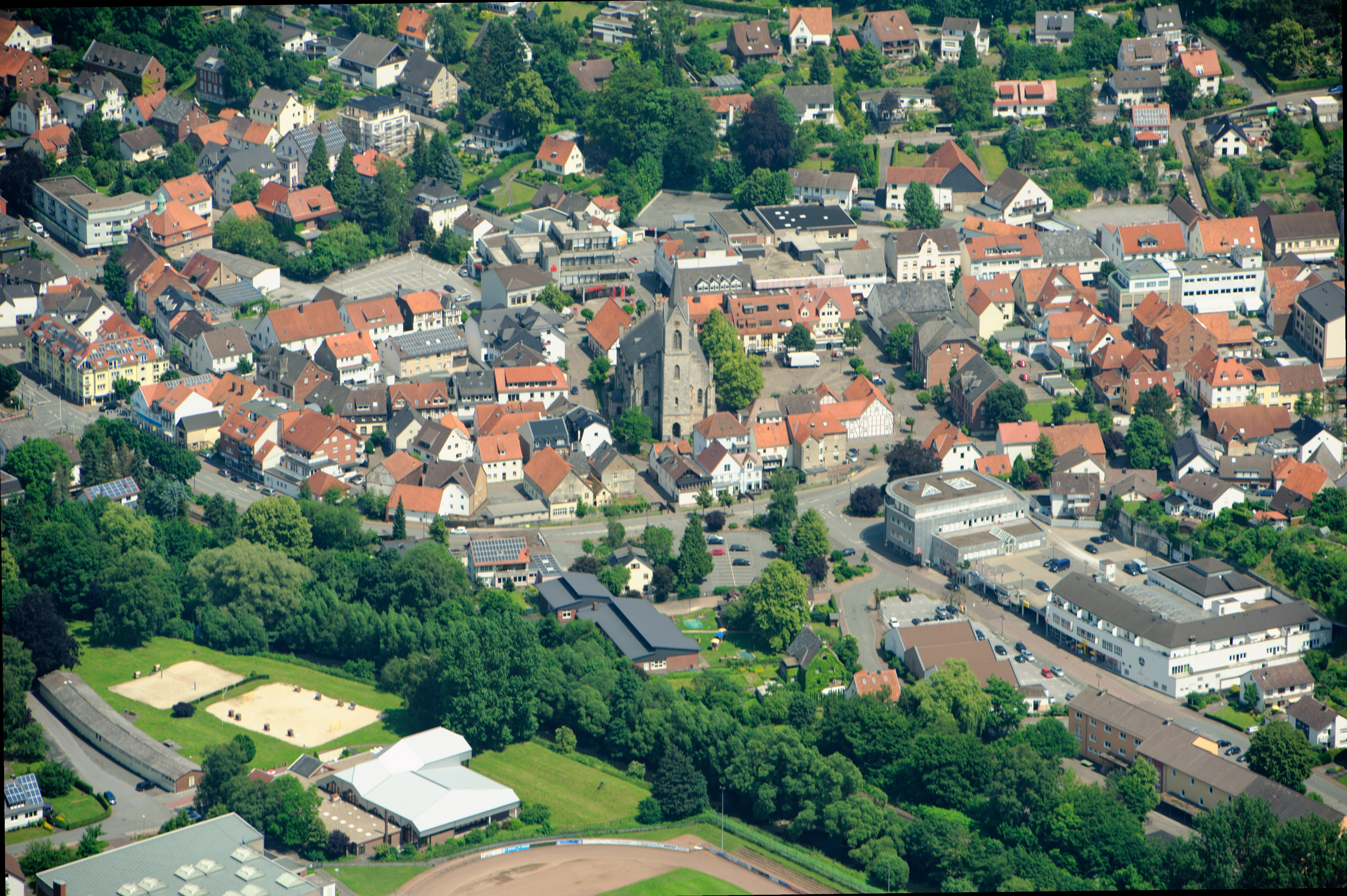 Fotoflug Sauerland-Ost, St. Magnus (Niedermarsberg), Ortskern Niedermarsberg The making of this document was supported by the Community-Budget of Wikimedia Germany.